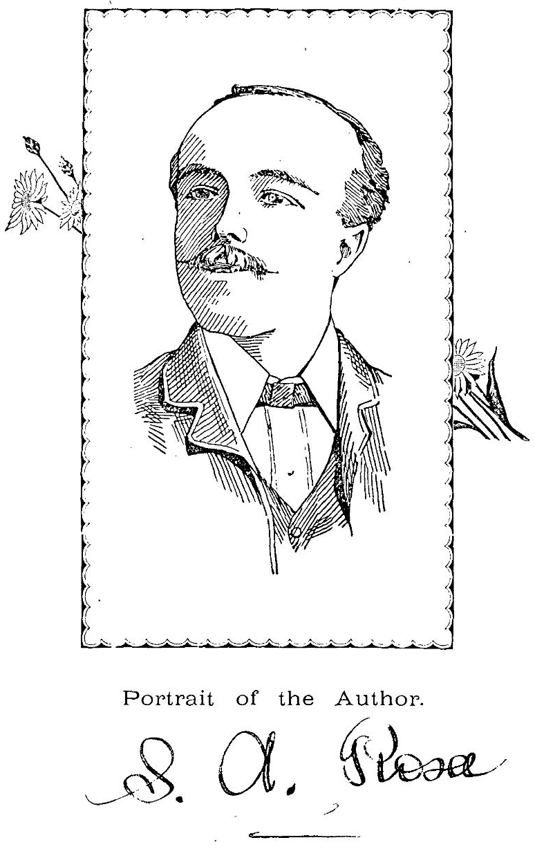 Portrait of Samuel Albert Rosa from Oliver Spence, the Australian Caesar, or, The coming terror